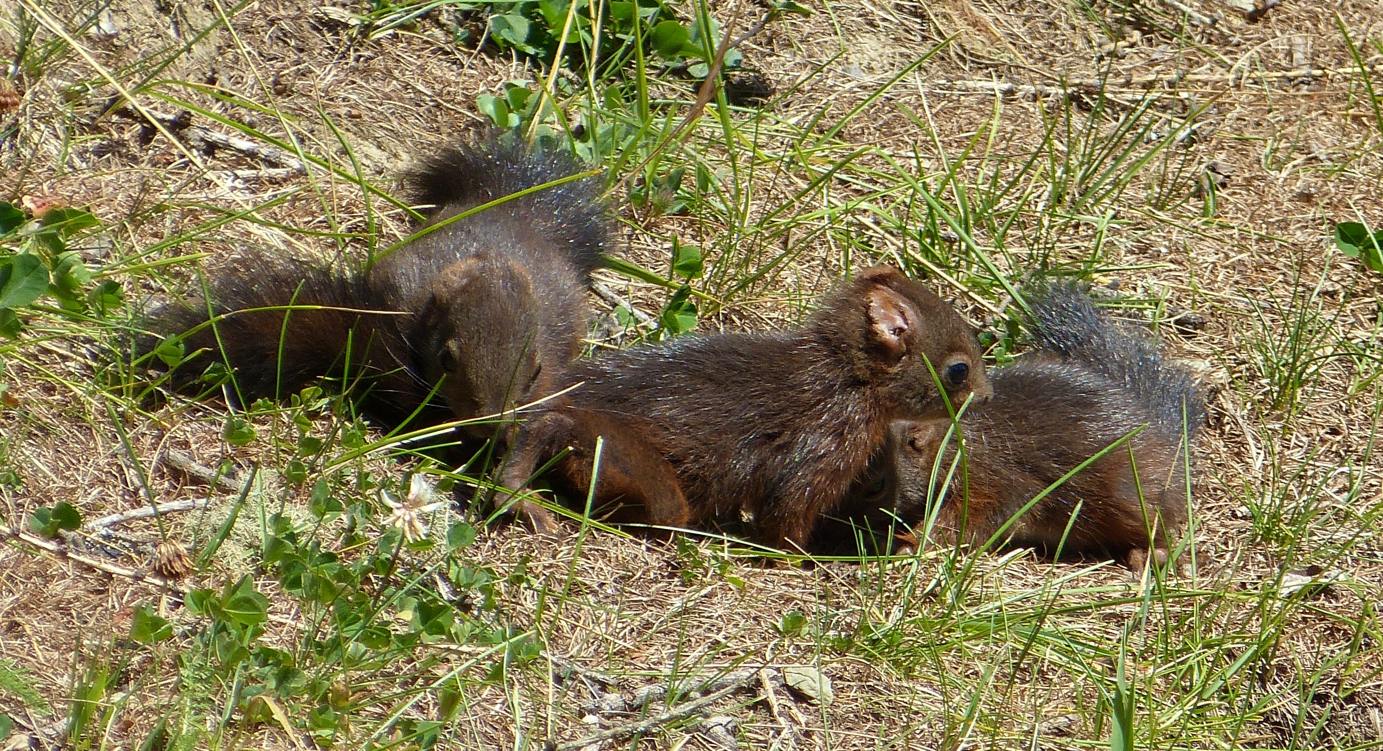 Juvenile red squirrels (Osttirol, Austria; mid of August; at an altitude of 1700 m)